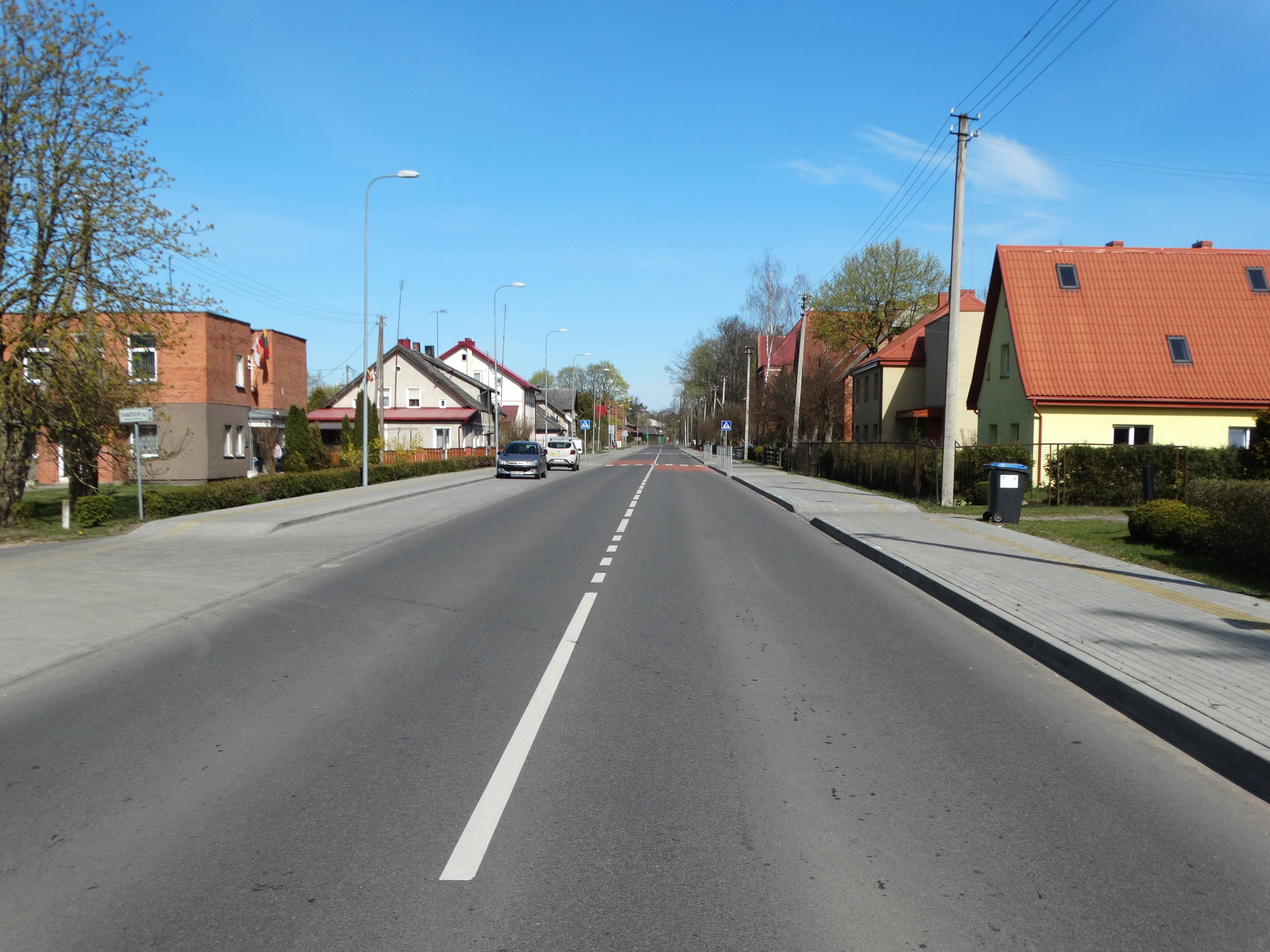 Viešvilė, Jurbarkas District, Lithuania